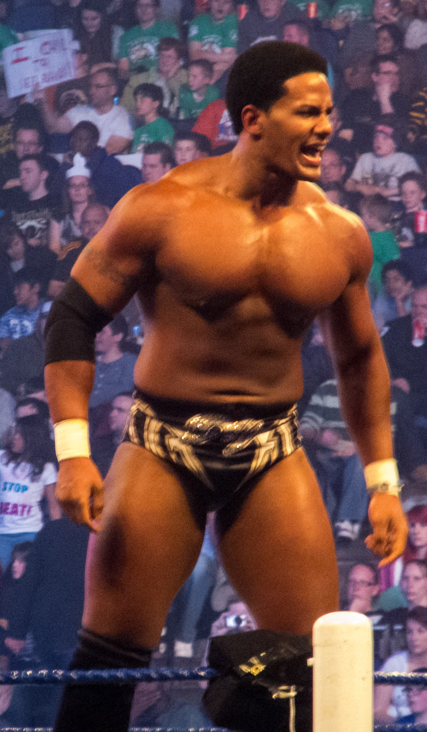 Pro Wrestler Darren Young at the WWE SmackDown tapings on 17 April 2012.